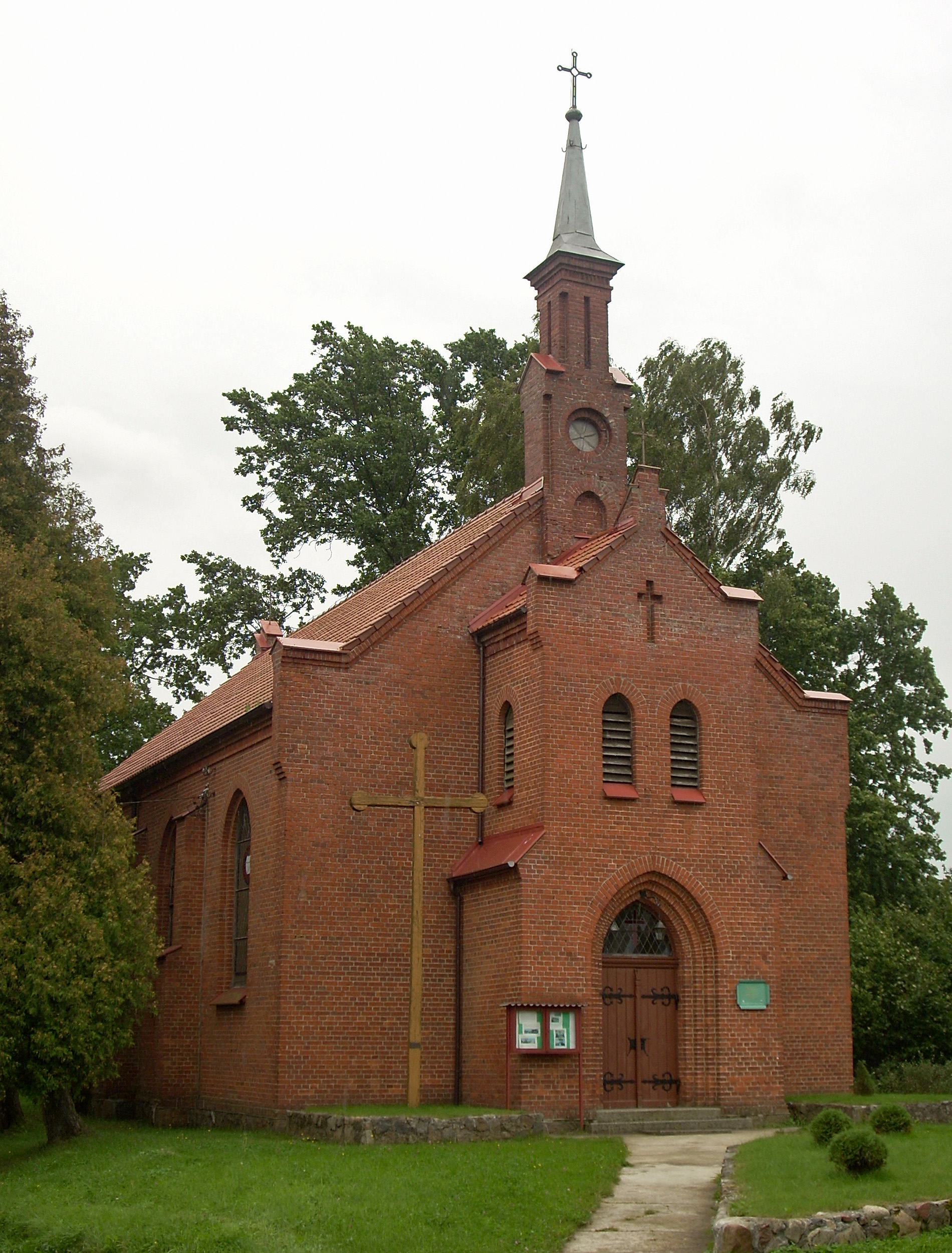 Church of St Peter and St. Paul in Ciekocino, Poland